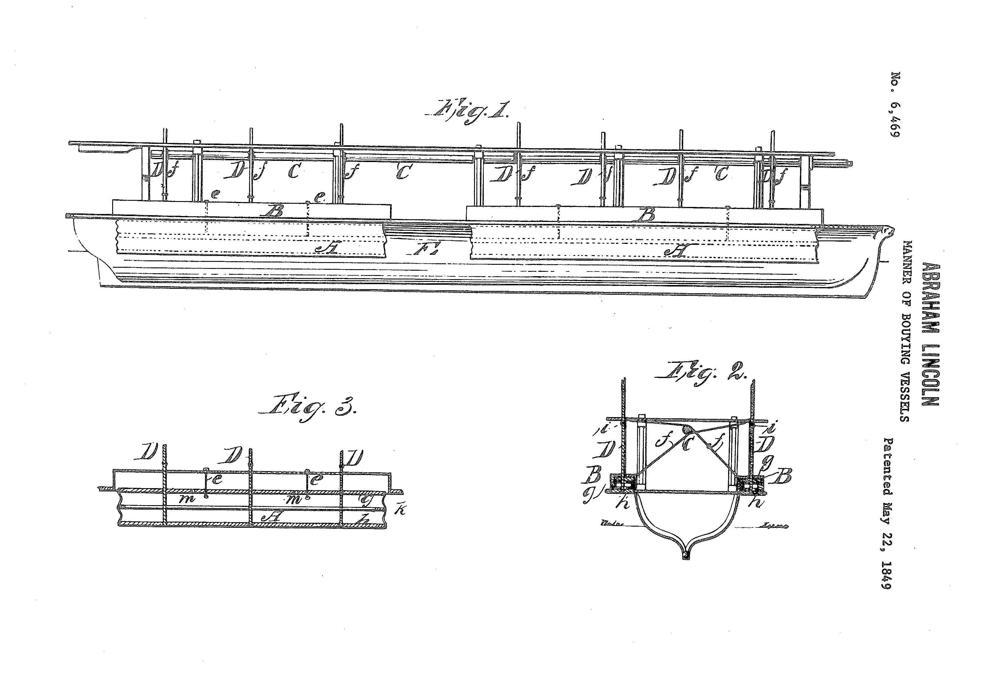 Abraham Lincoln patent of buoying vessels over shoals